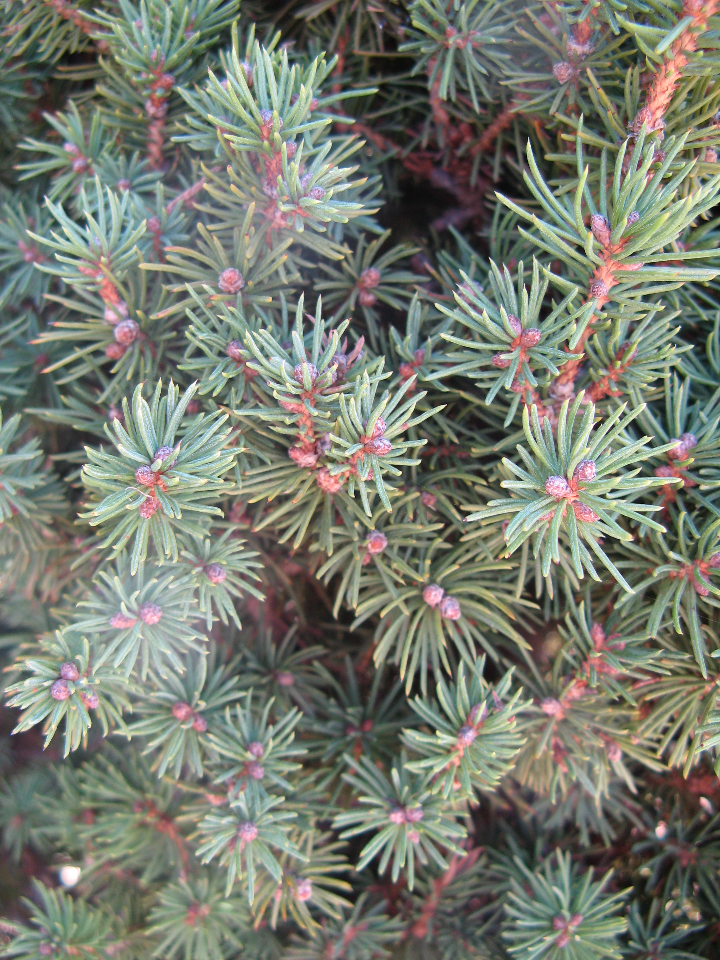 Picea glauca var. albertiana A dwarf Alberta white spruce in Los Angeles County Arboretum and Botanic Garden